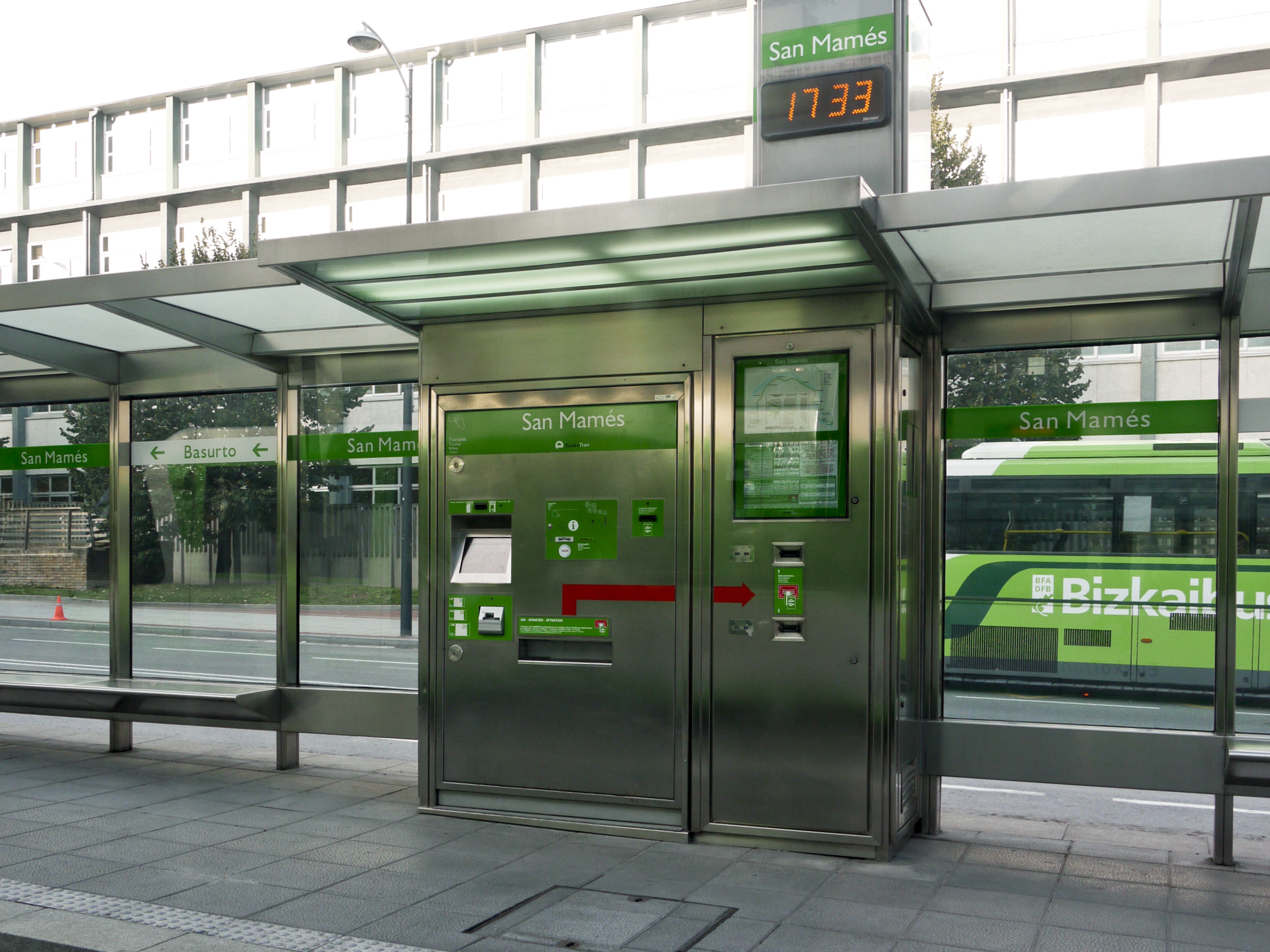 Tram Station San Mamés, Bilbao, Spain